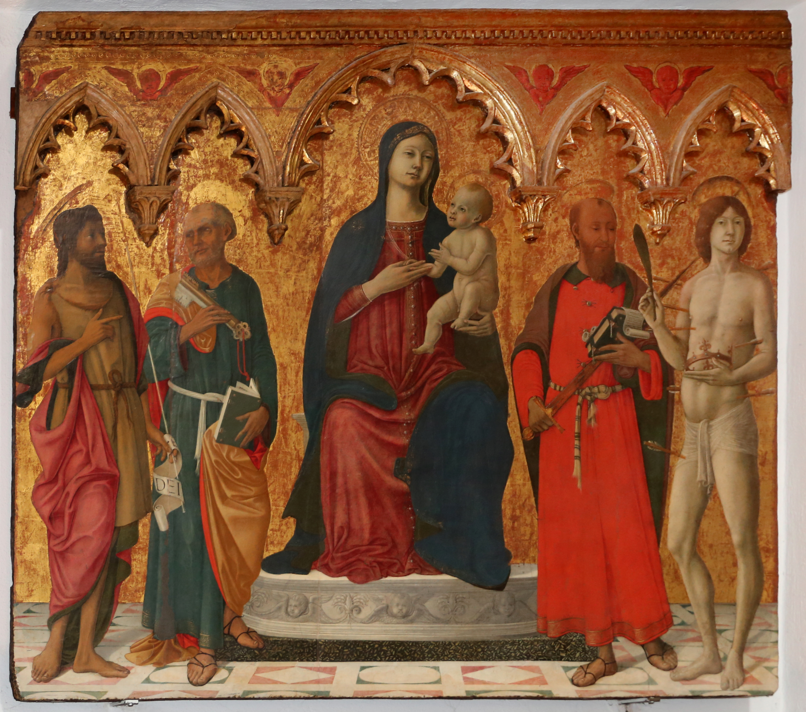 Chiesa dei Santi Pietro e Paolo (Buonconvento) - Interior